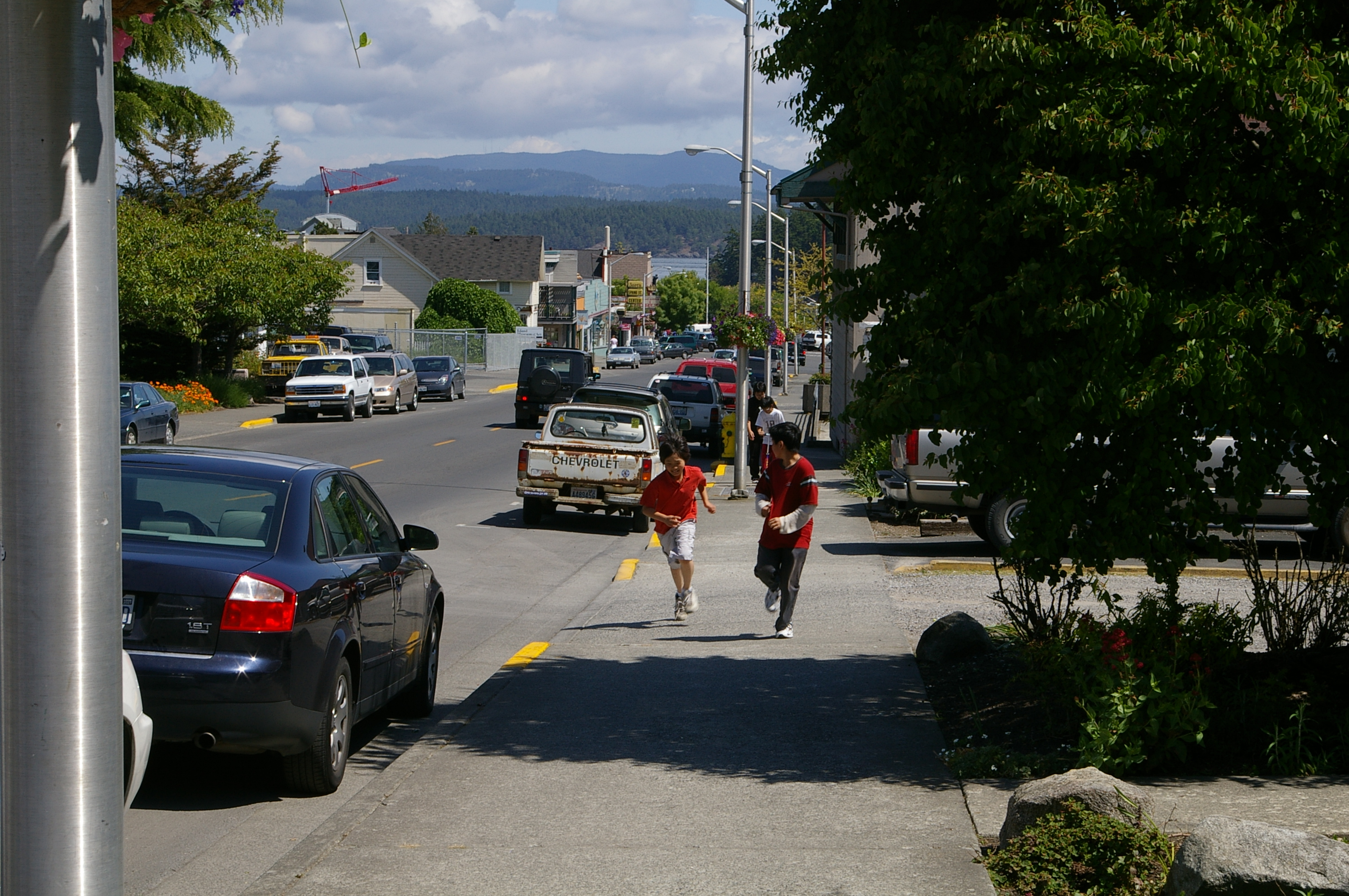 Spring Street, Friday Harbor, WA looking north